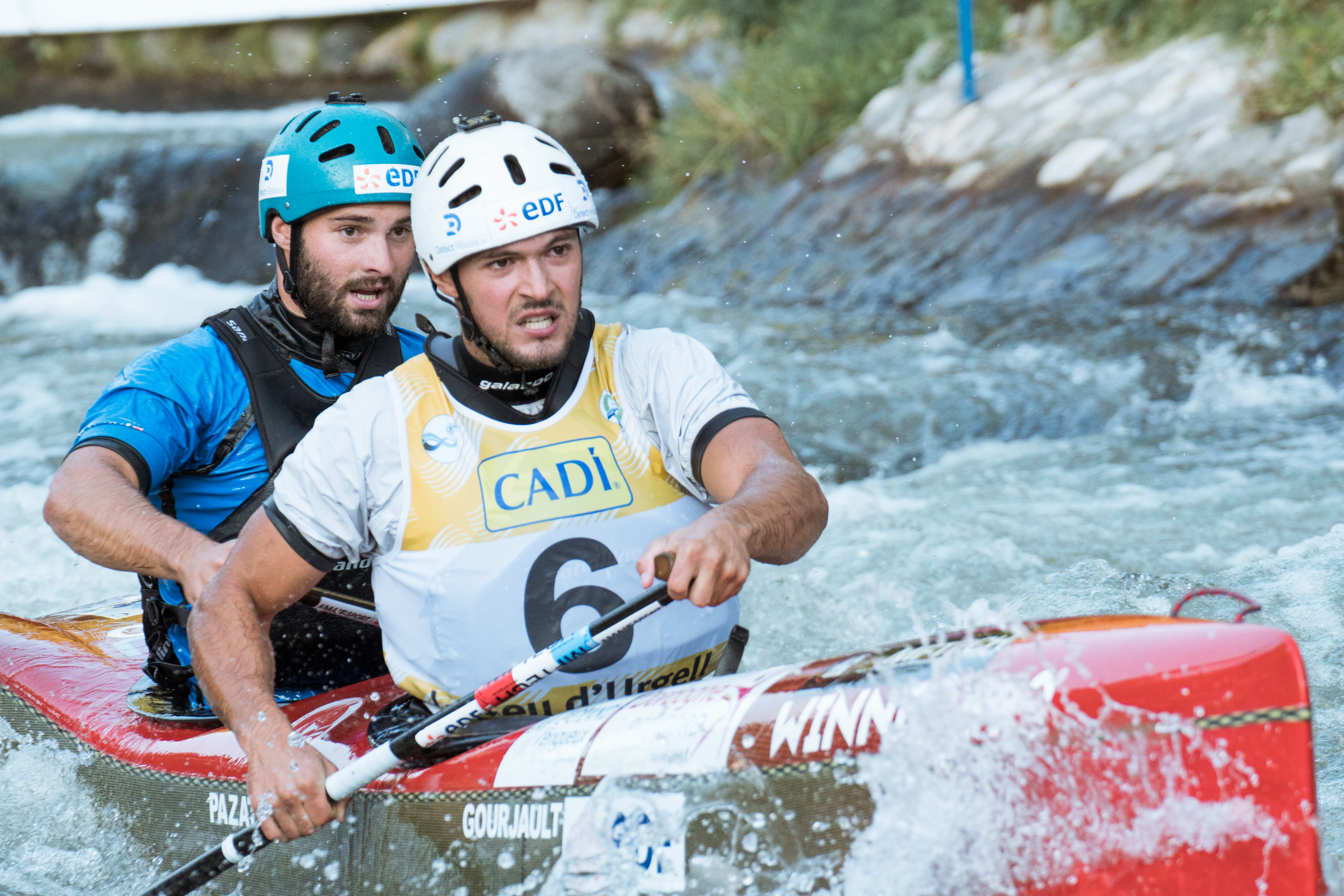 Lucas Pazat and Ancelin Gourjault during the 2019 Canoe Wildwater World Championships in La Seu d'Urgell, Spain.